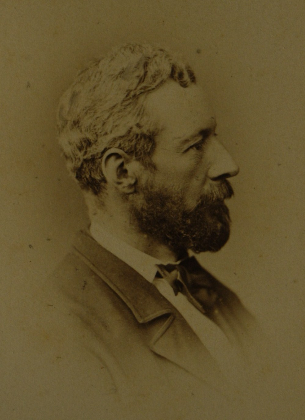 My photo (Rodolph (talk) 23:41, 10 August 2013 (UTC)) of a photo of Count Pierre de Salis of Neufchatel (1827-1919) taken in 1875.